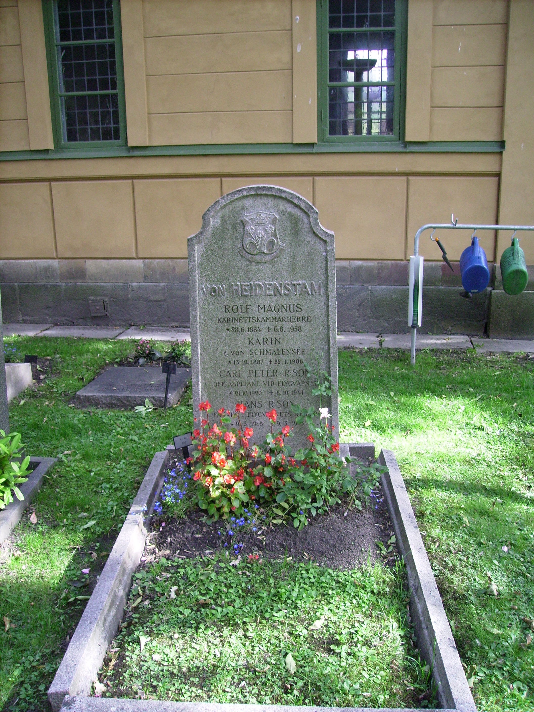 Picture of Rolf von Heidenstam's grave at Galärvarvskyrkogården in Stockholm